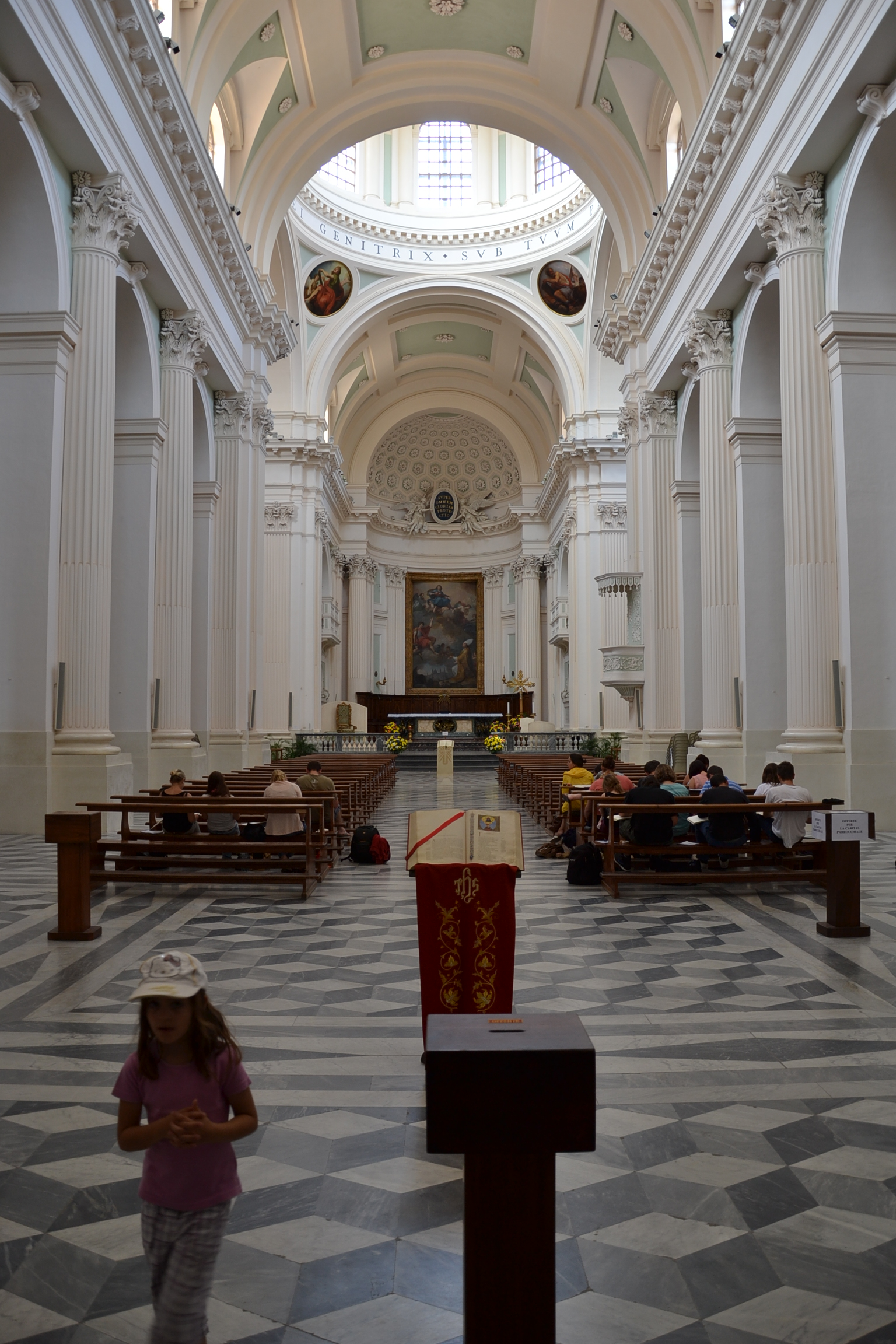 Cathedral from Urbino formaly States Papal, current Italy